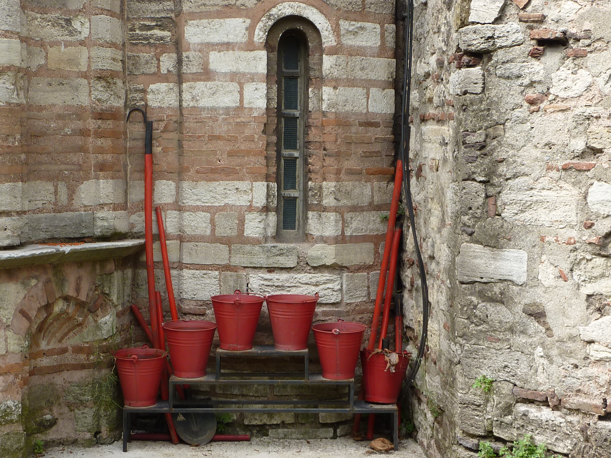 Pammakaristos Church (Fethiye Museum). Note the firefighting equipment